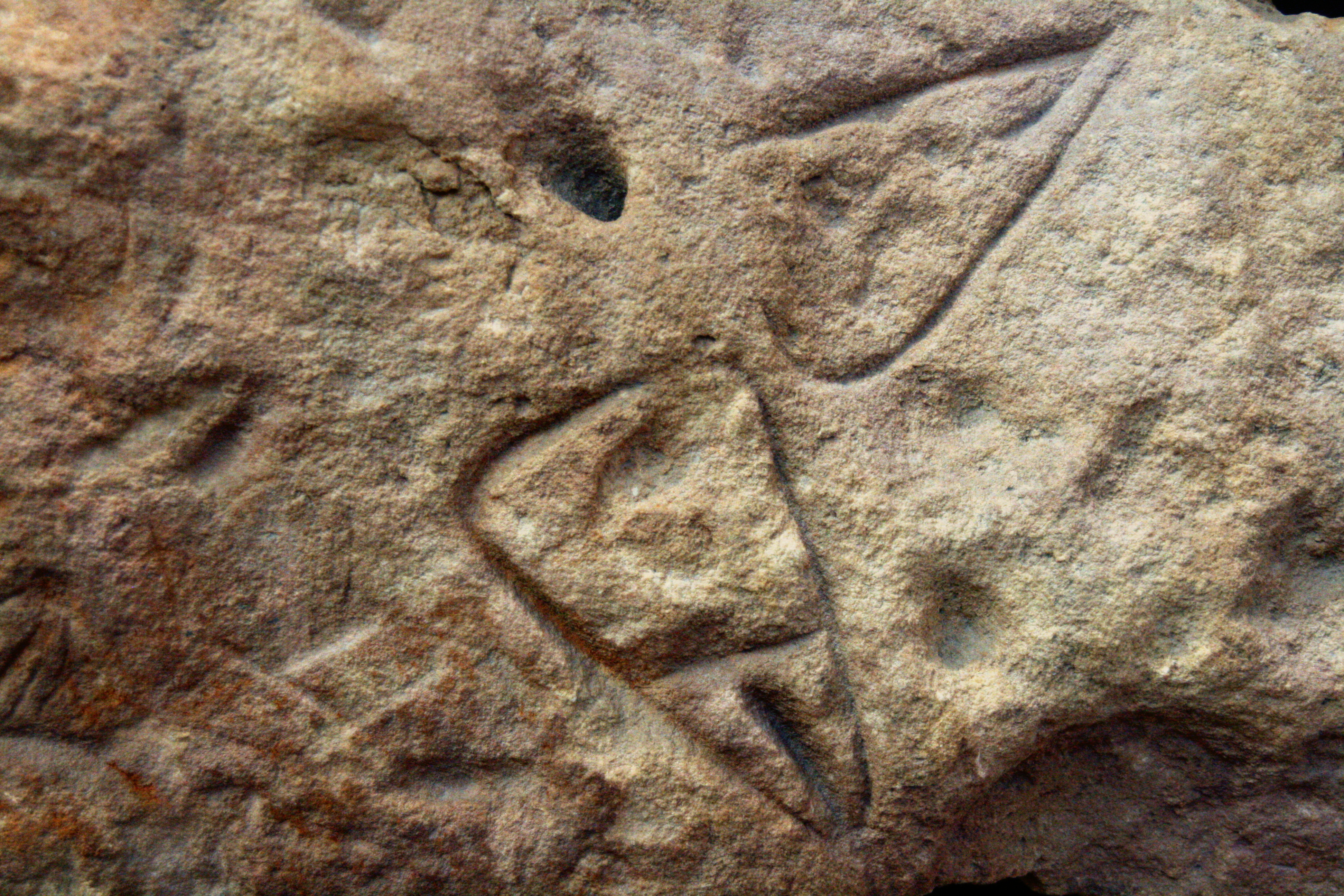 Symbols of vulvas engraving on a block found in the rock shelter of La Ferrassie, in Savignac-de-Miremont, Dordogne, France. Aurignacian culture. It can be viewed in the National Prehistory Museum in Les Eyzies-de-Tayac.